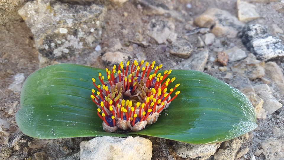 Daubenya zeyheri (Kunth) J.C.Manning & A.M.van der Merwe - at Paternoster, Western Cape, South Africa